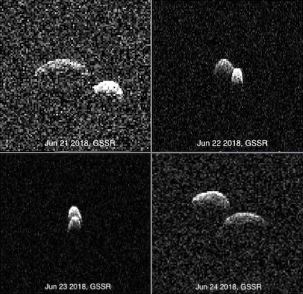 Collage of delay-Doppler images obtained between June 21-24, 2018 at Goldstone. The images have a resolution of 37.5 m x 0.055 Hz. In each panel, range increases down and Doppler frequency increases to the right.